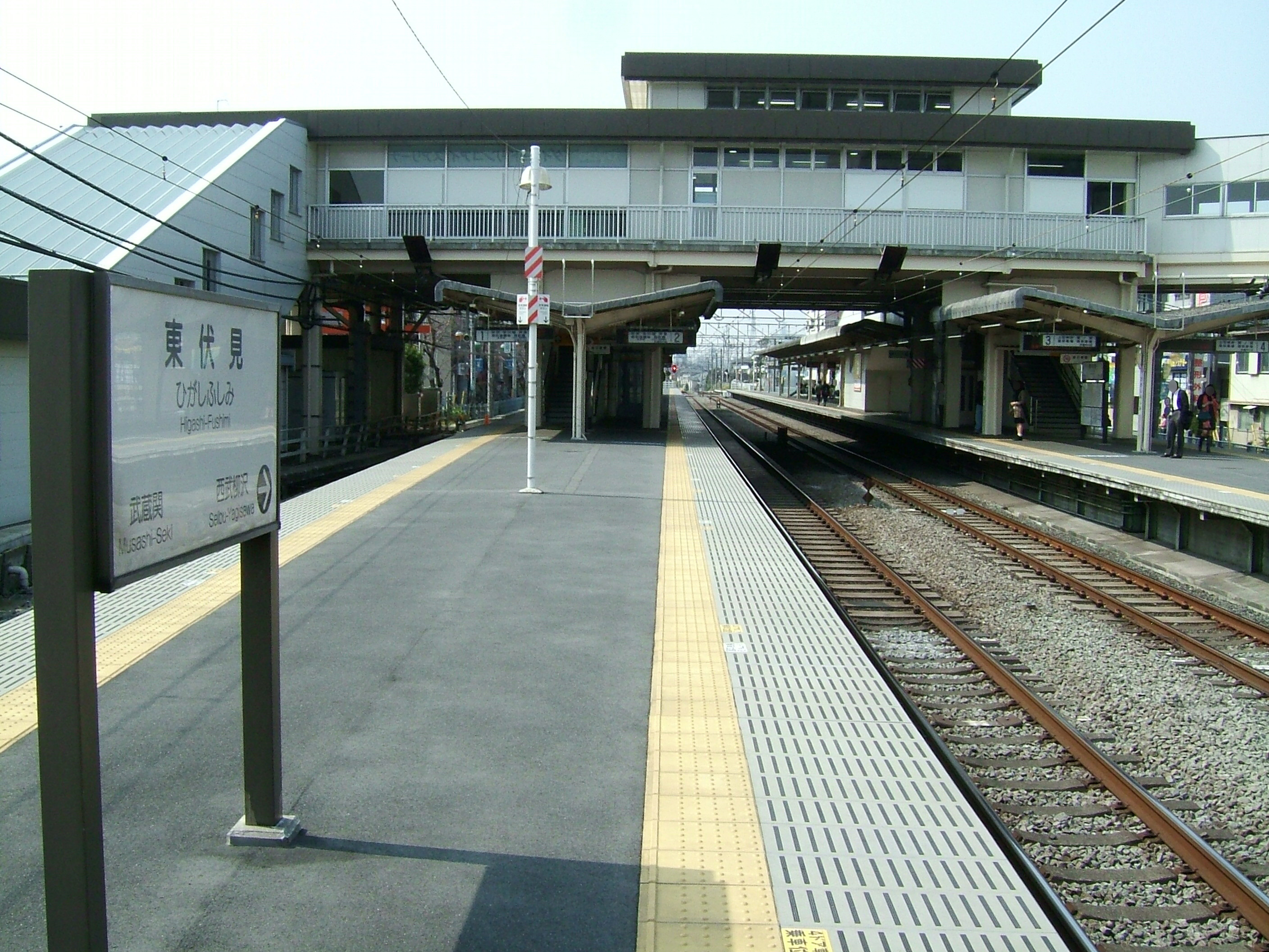 Higashi-Fushimi Station north side (Seibu Shinjuku Line)